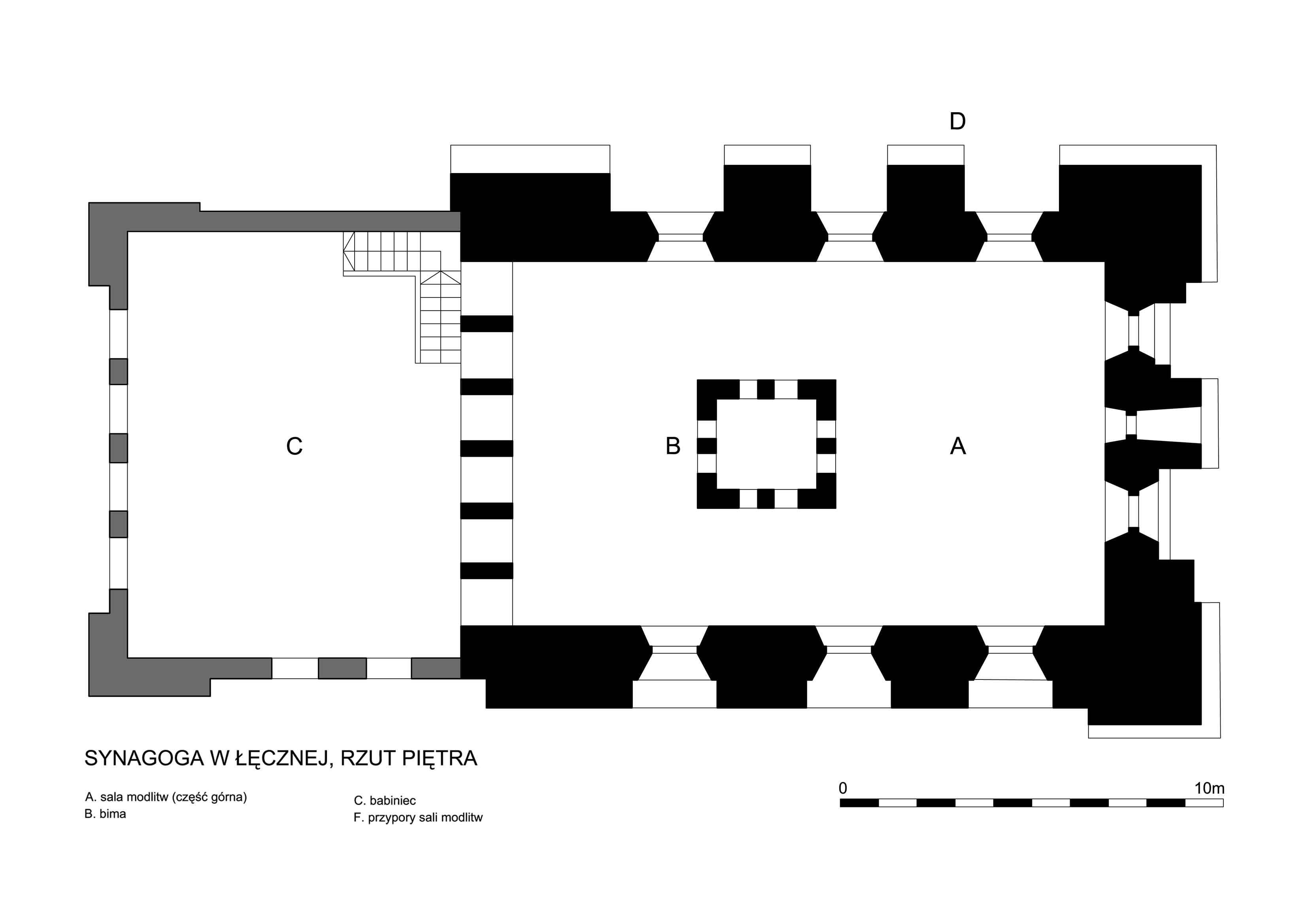 Synagogue in Łęczna - first floor plan